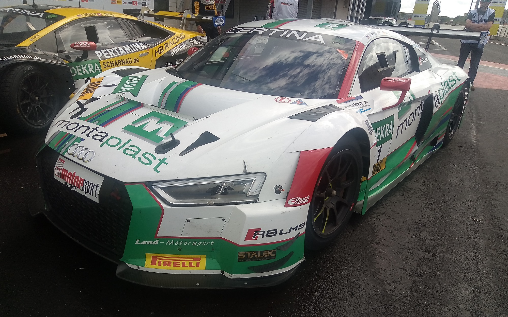 The Land Motorsport Audi R8 LMS raced by Connor de Phillippi and Christopher Mies. De Phillippi and Mies won the second race at Circuit Zandvoort in 2017